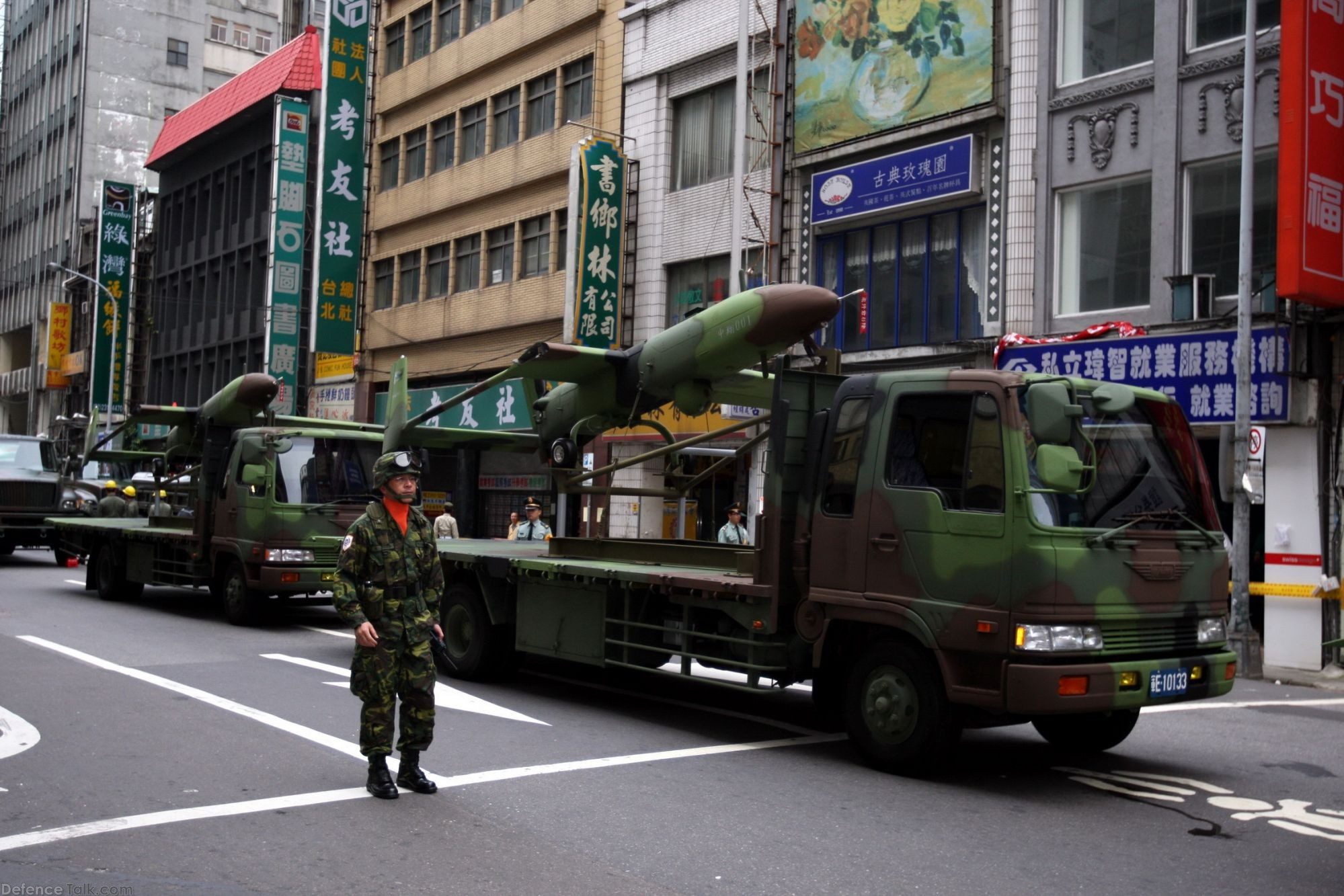 The Chung Shyang II UAV being unveiled publicly on the 2007 National Day Celebrations